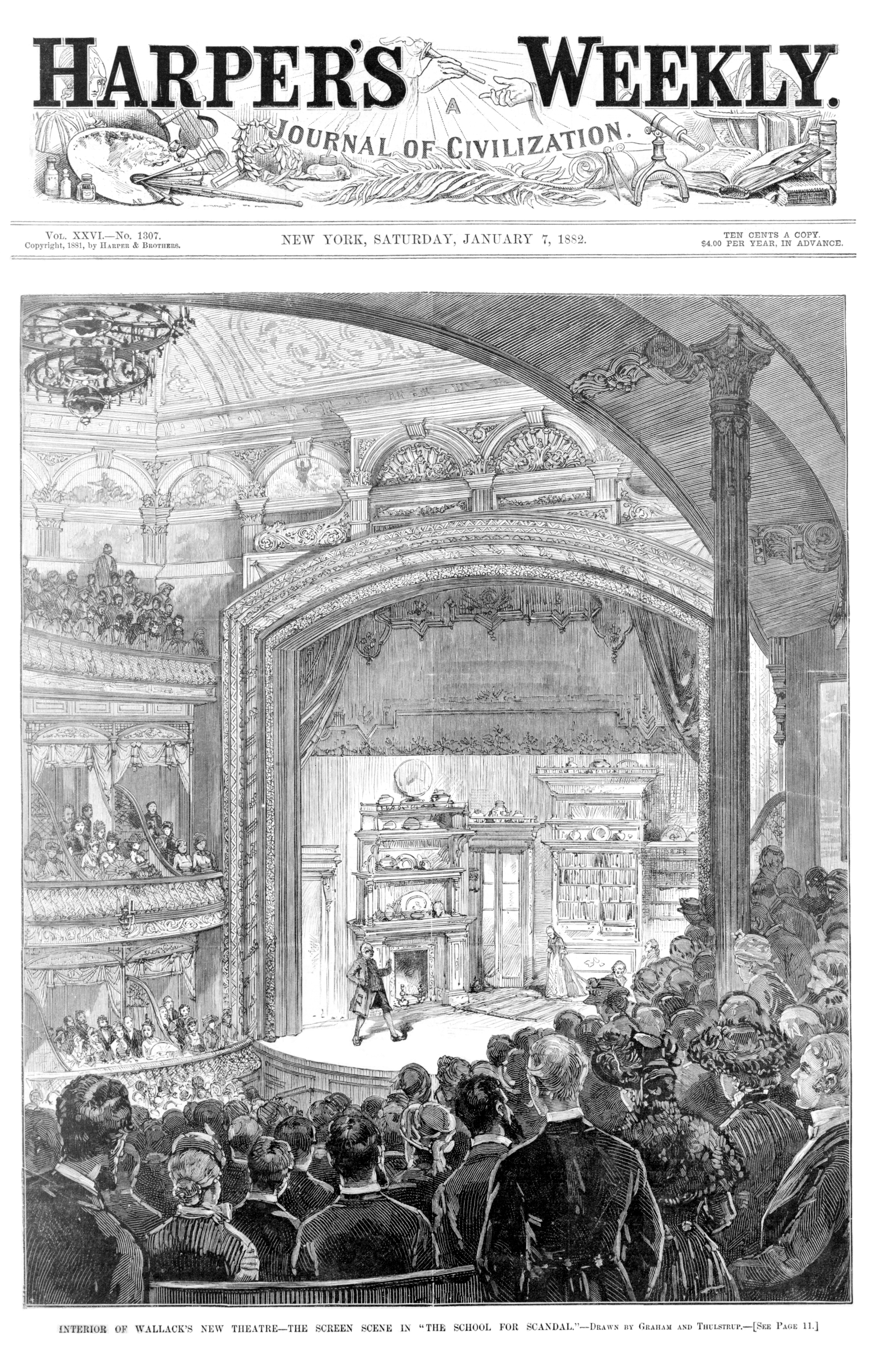 Front cover of Harper's Weekly featuring the interior of the new Wallack's Theatre and its production of The School for Scandal